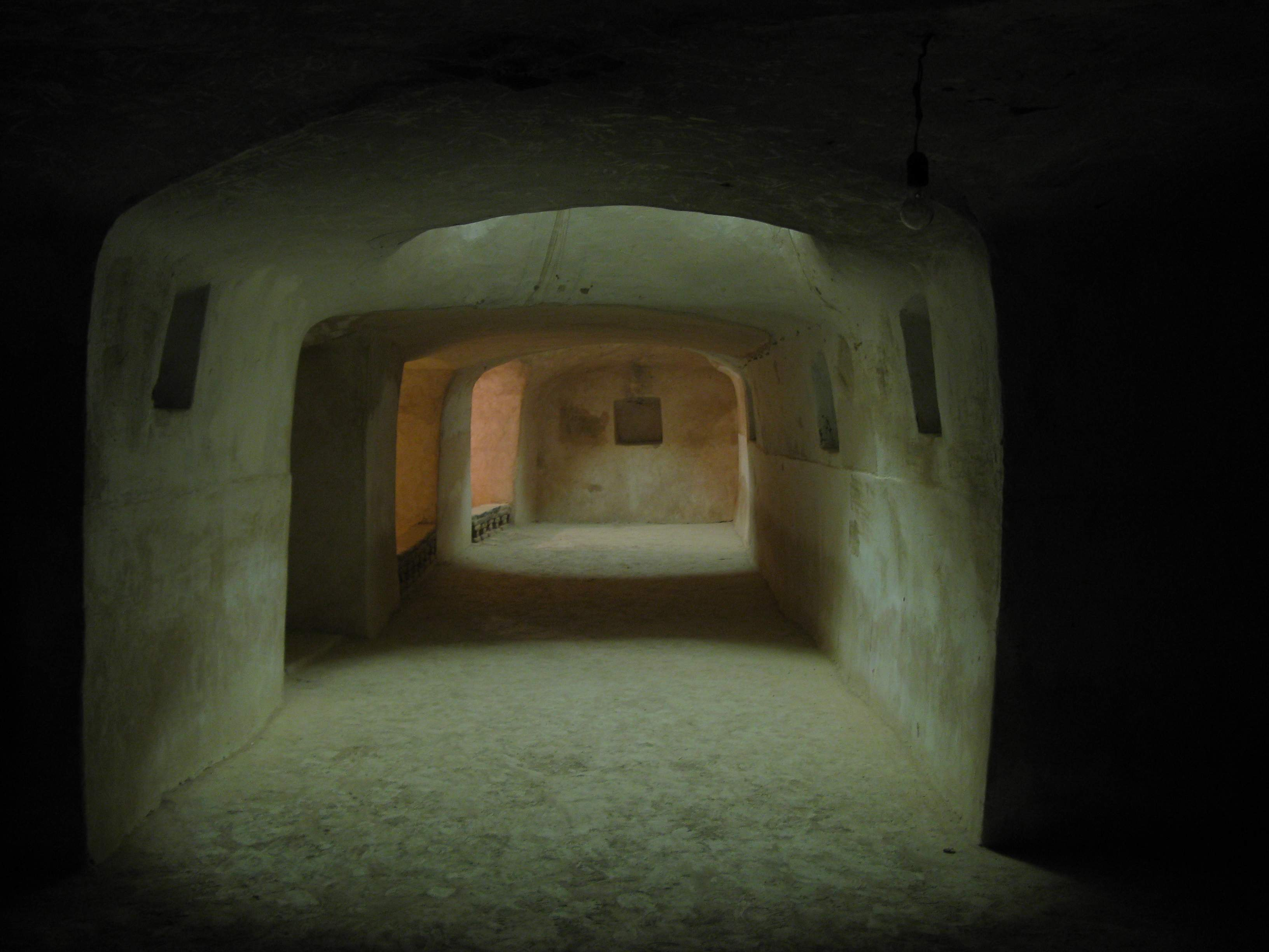 Jame mosque basement